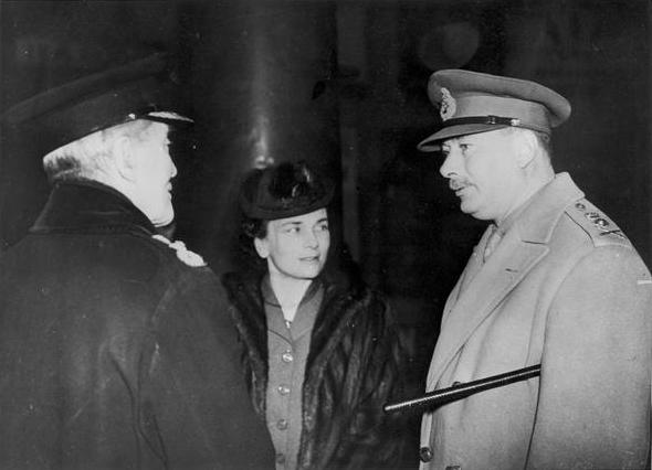 Commissioner Sir Philip Game (left) with Their Royal Highnesses the Duke and Duchess of Gloucester photographed at Euston Station on the eve of their departure for Australia.